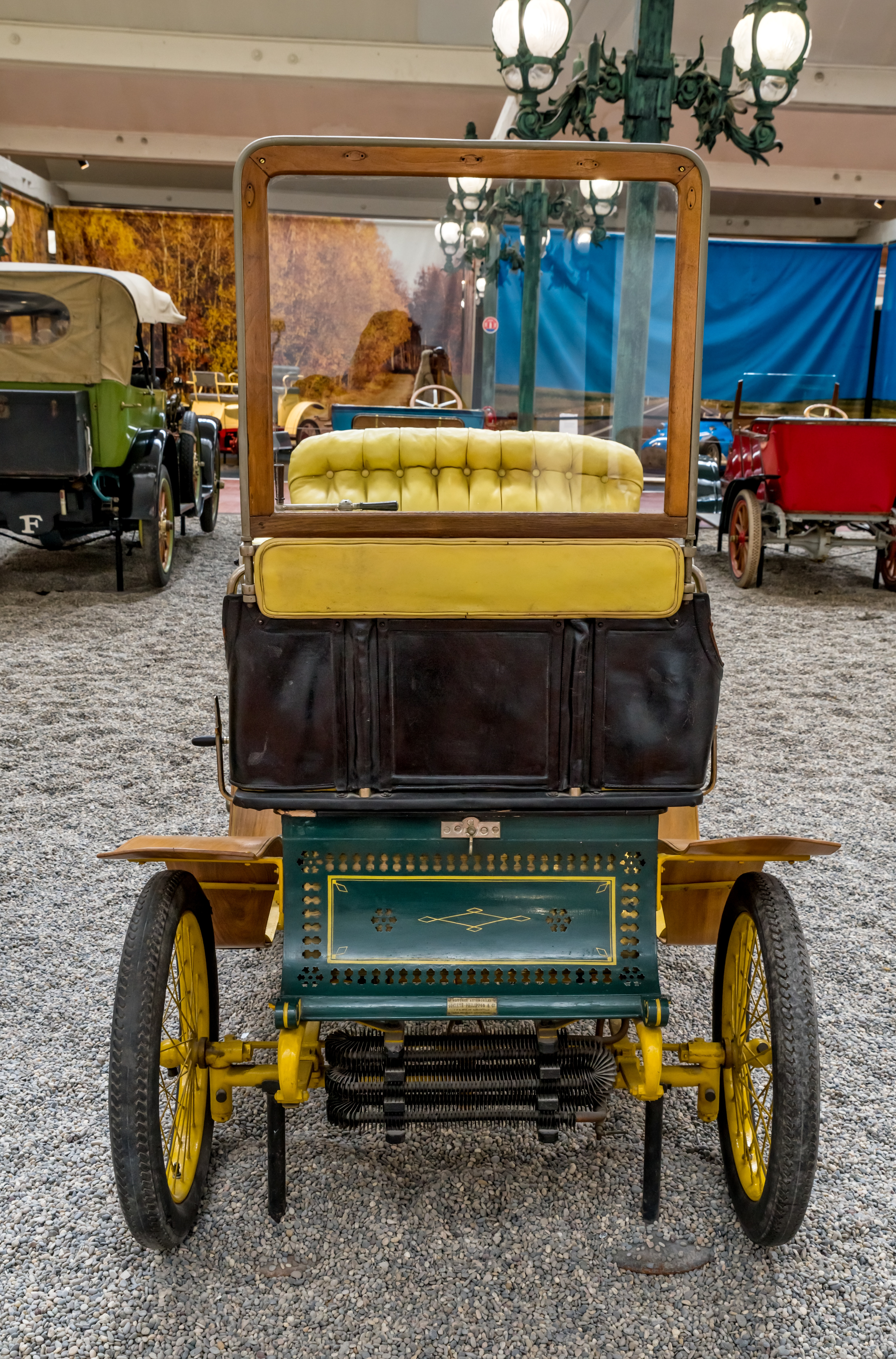 pictures from the Cité de l’Automobile – Musée National – Collection Schlump in Mulhouse, France ptictures from the 10. may 2018